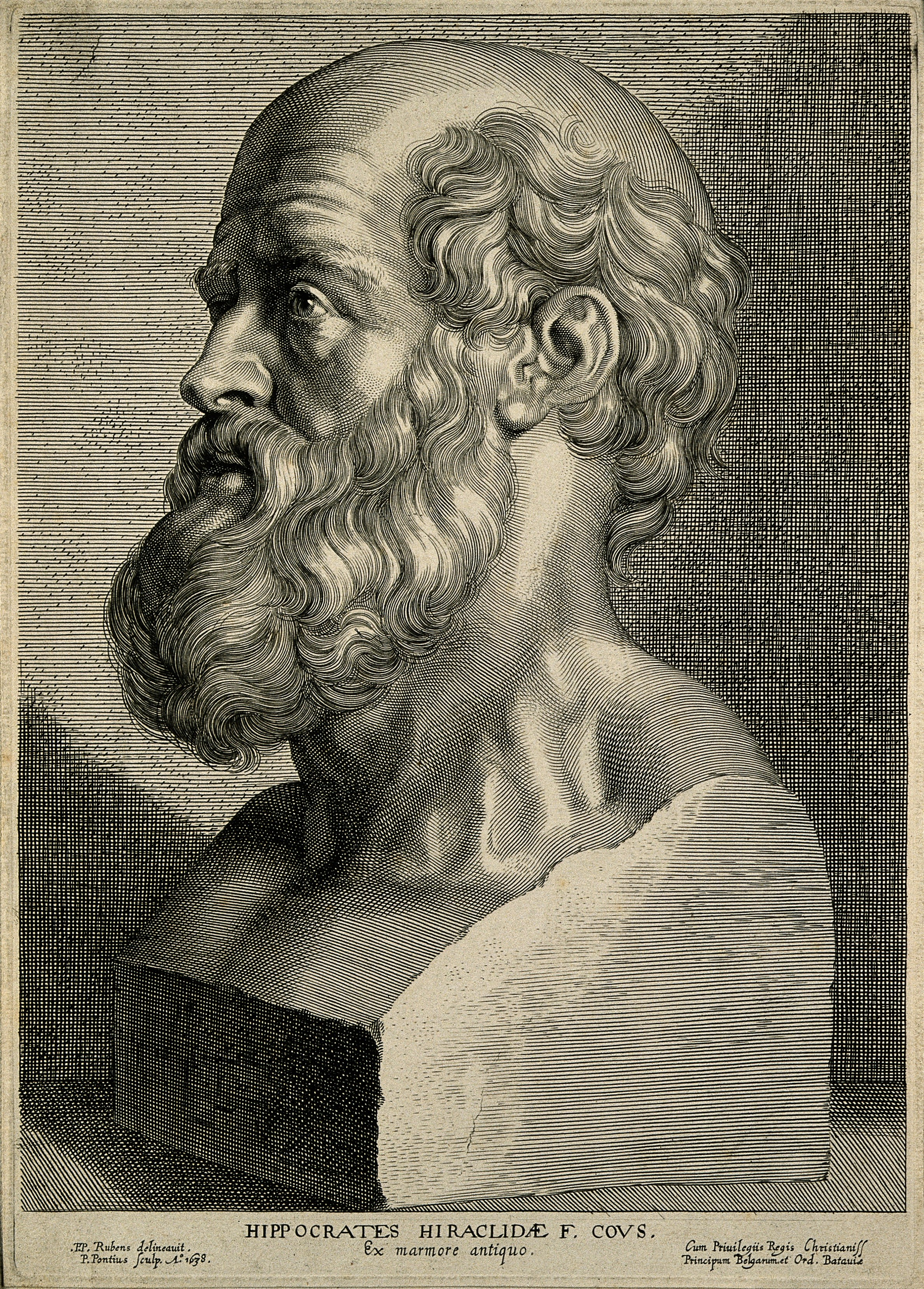 Hippocrates. Line engraving by P. Pontius, 1638, after P. P. Rubens. Iconographic Collections Keywords: portrait prints; engravings; Peter Paul Rubens; name; Paulus Pontius